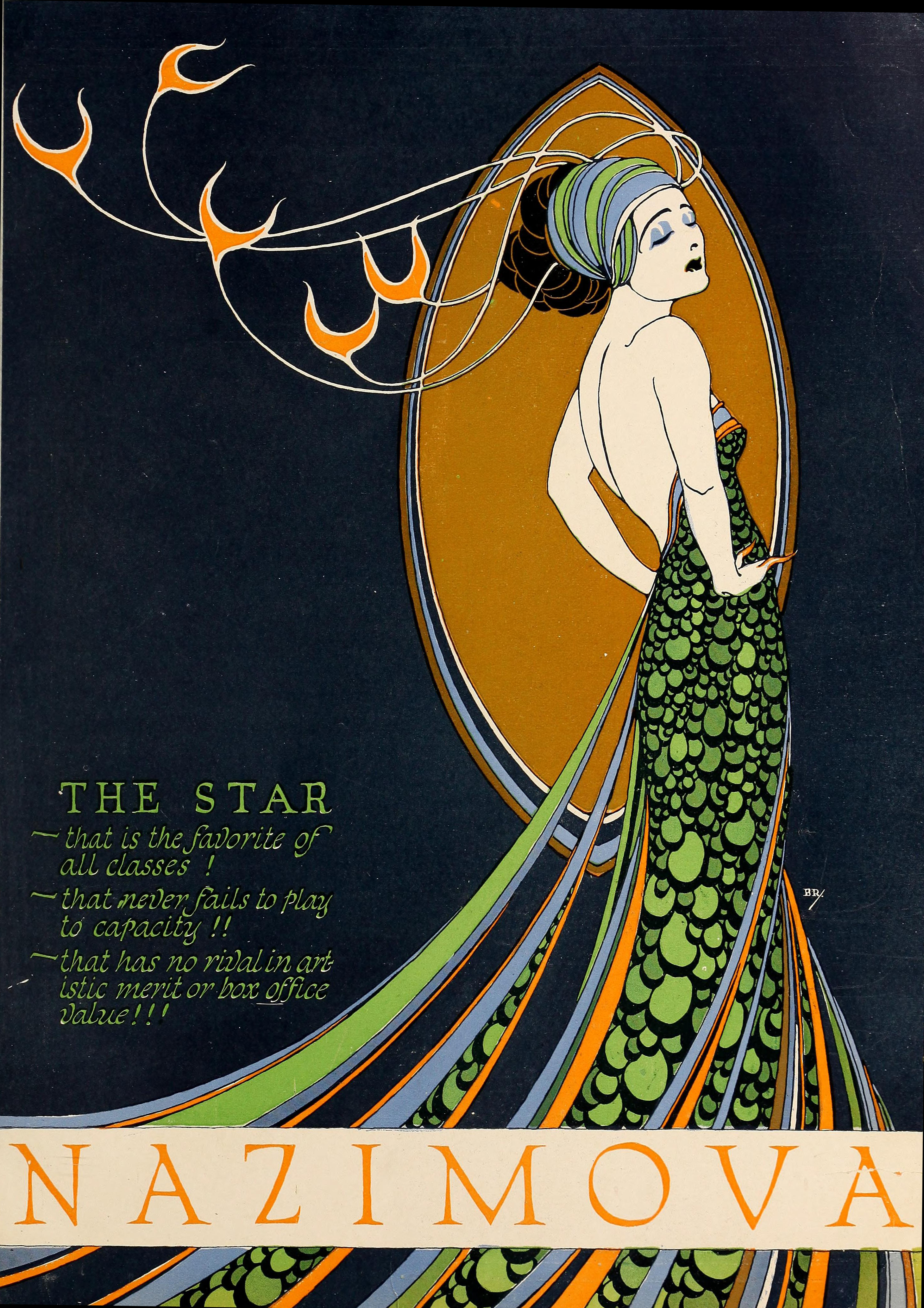 Advertisement in Motion Picture News of Nazimova by Burton Rice of her appearance in Madame Peacock (1920).